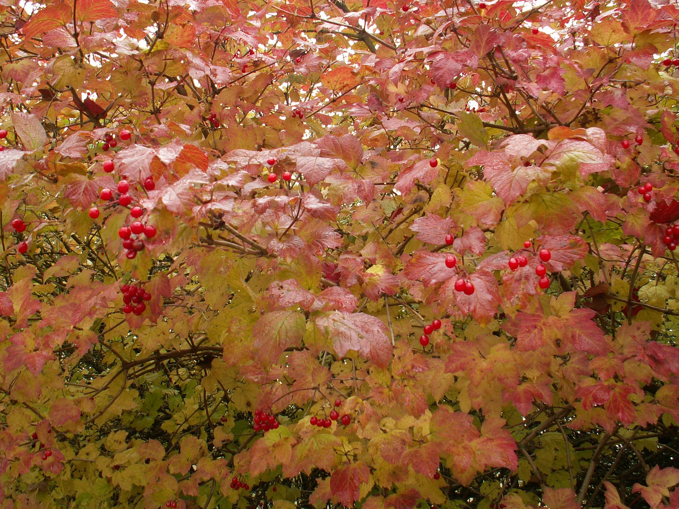 Viburnum opulus. Fruit and leaves during autumn.